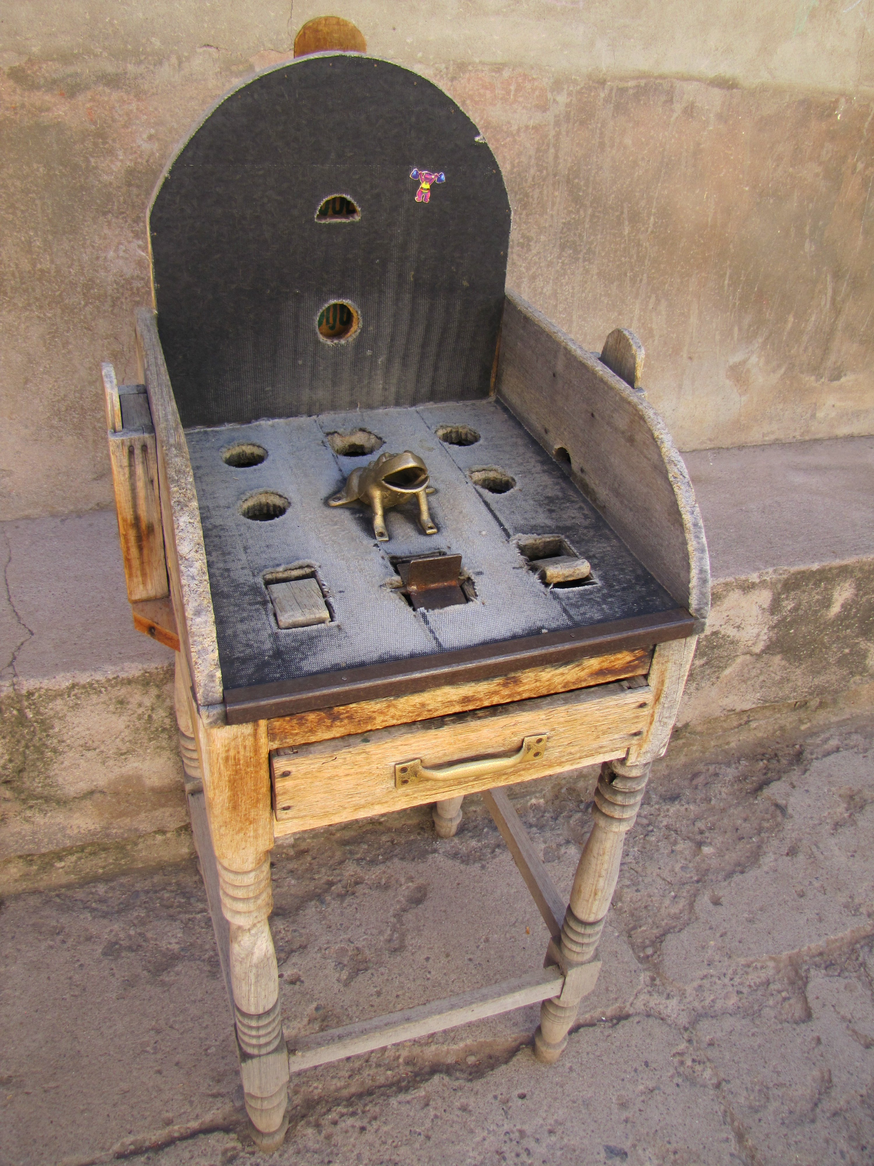 Game of Frog at Chicha Bar in Peru Sacred Valley